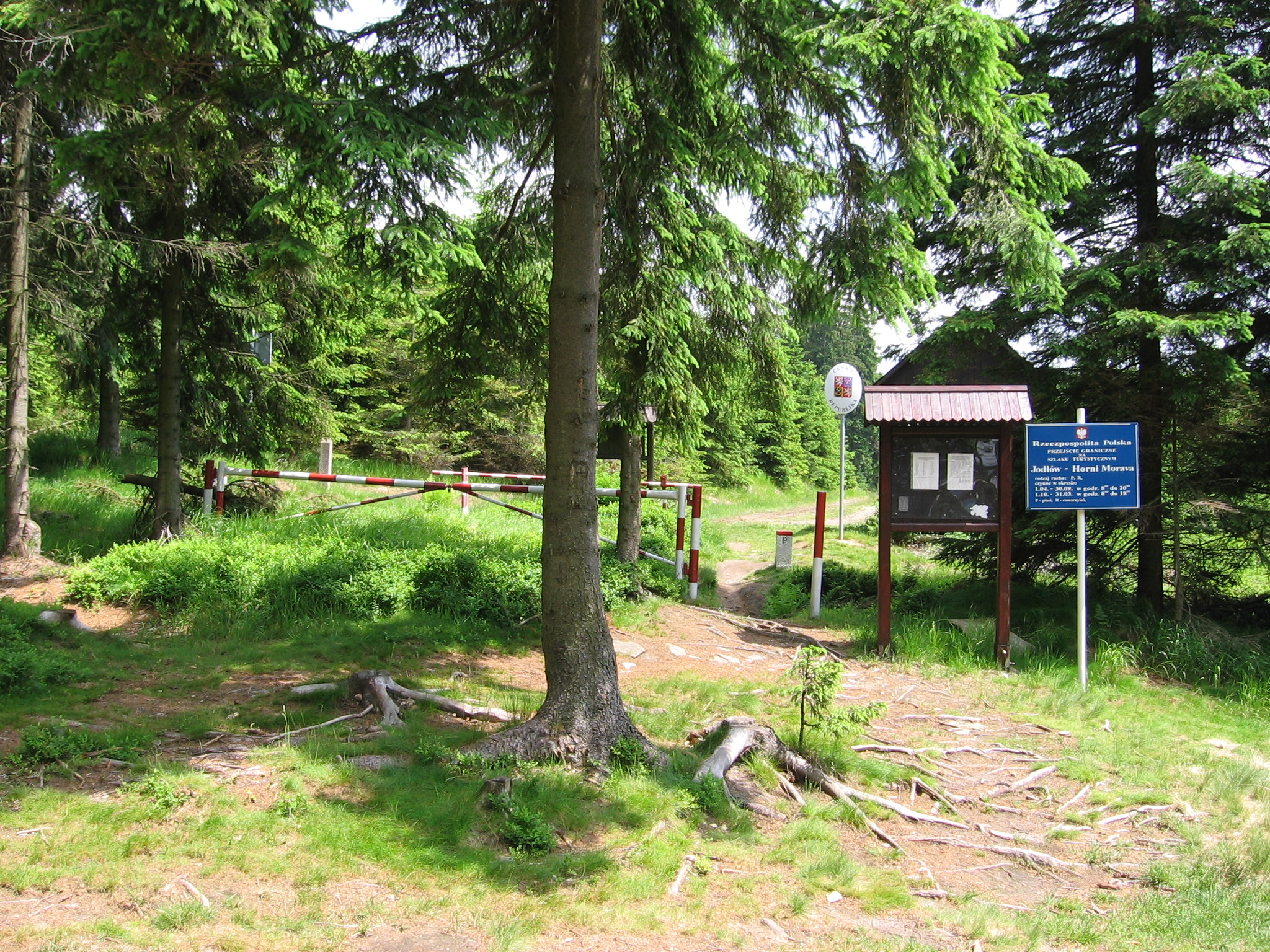 Jodłów–Horní Morava tourist border crossing on Polish-Czech border. View from polish side